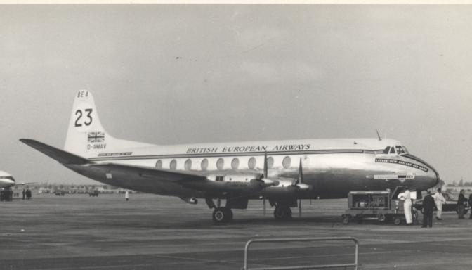 Vickers 700 Viscount G-AMAV in BEA markings at London Airport (later Heathrow) as No. 23 in the New Zealand Air Race